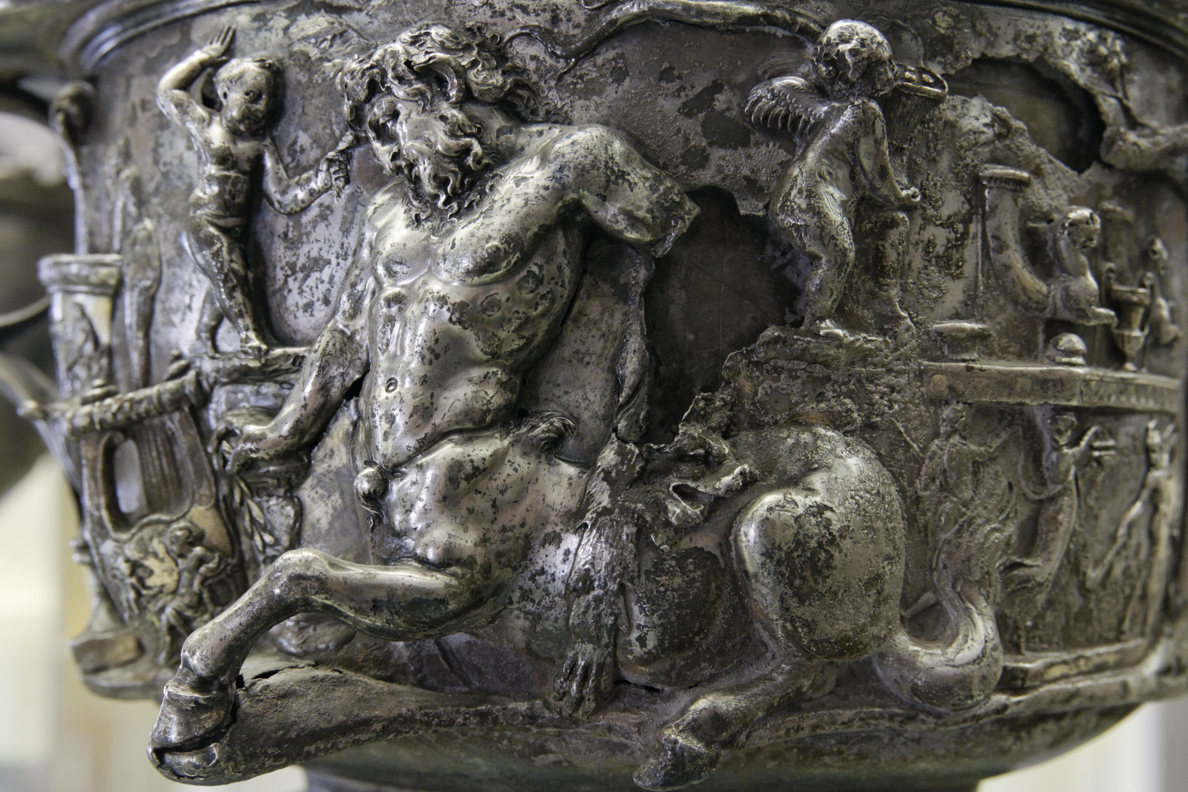 Tormented centaur and Erotes amidst tables and vases, detail from one of the Berthouville Centaur cups. Repoussé silver, Italy.